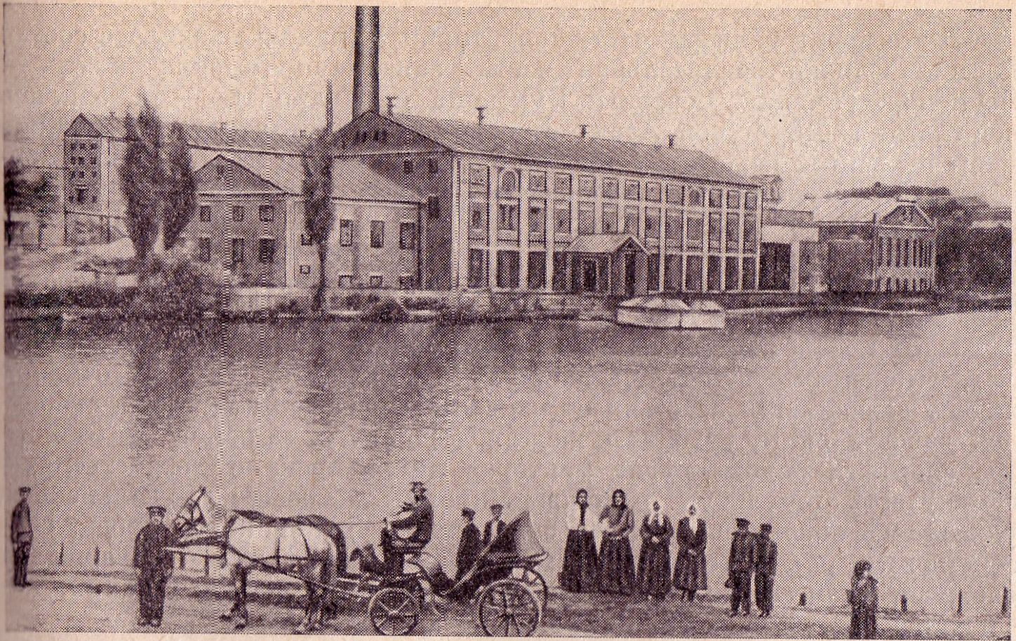 Sugar refinery in Shpola in the late 19th century.